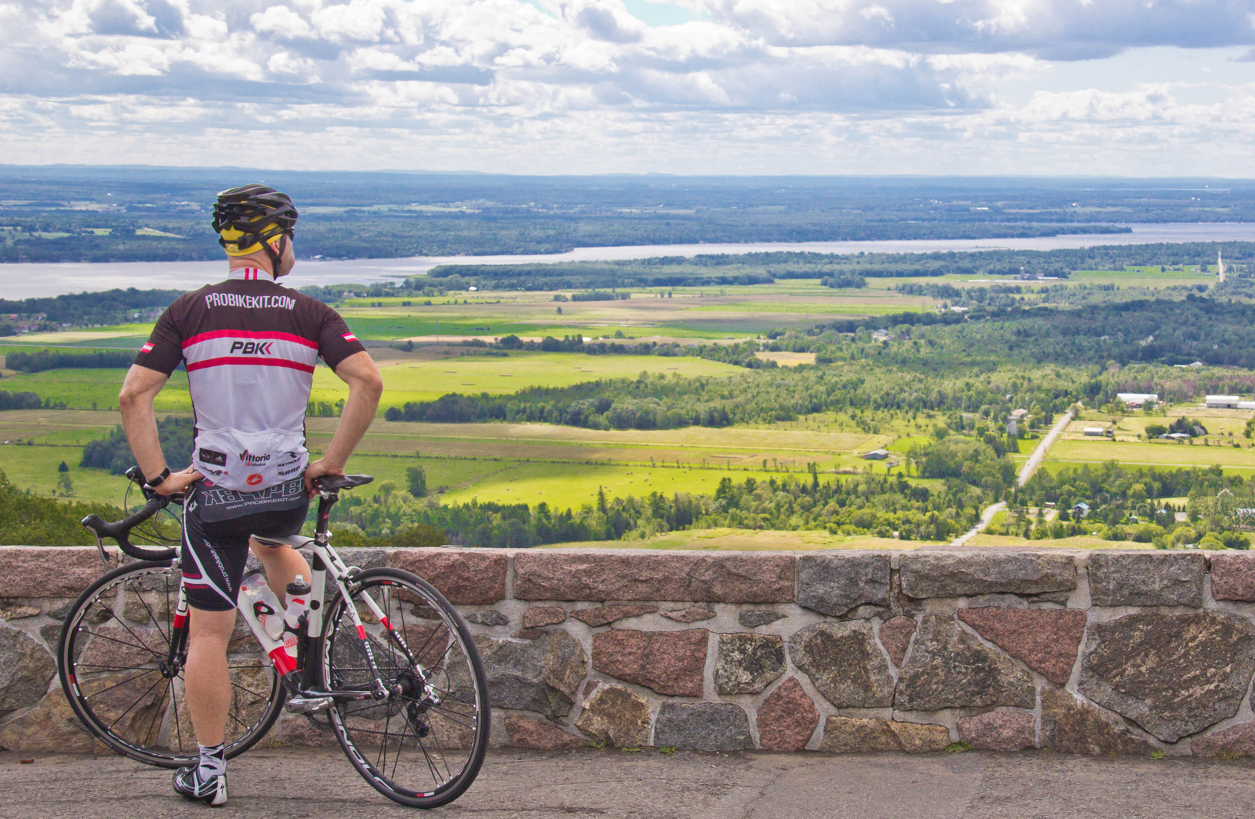 Champlain Lookout, Gatineau Park